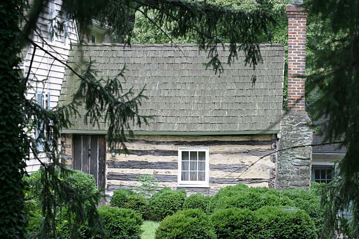 This photo of the 'Josiah Henson' cabin was taken by me on August 27, 2005. It is located at 11420 Old Georgetown Road, Bethesda, MD.